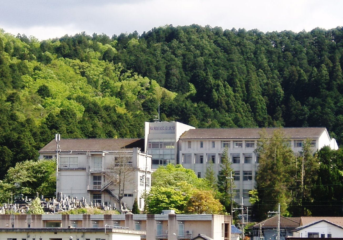 Far view of the University of Fukuchiyama located in Fukuchiyama, Kyoto, Japan.